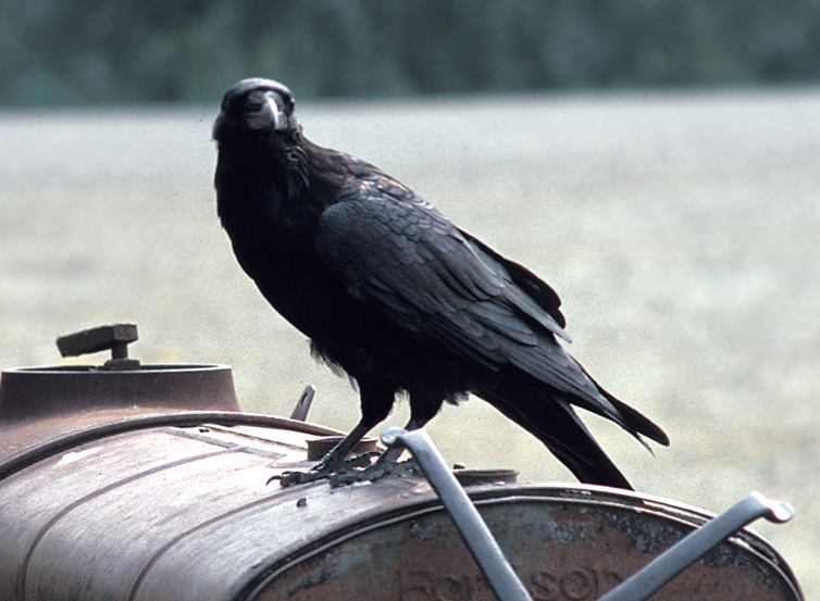 Corvus corax principalis; Common Raven